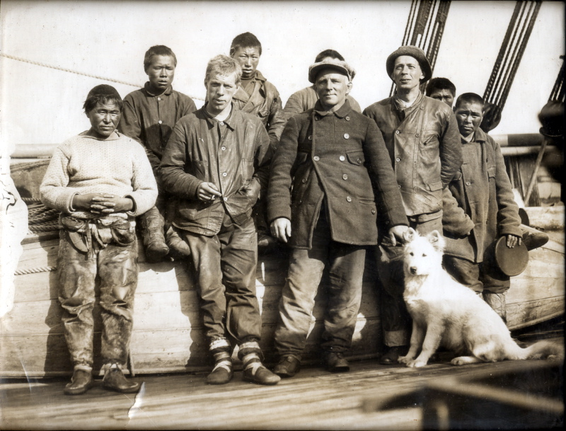 Gennadi Olonkin (3rd from left) aboard ship Maud of Roald Amundsen